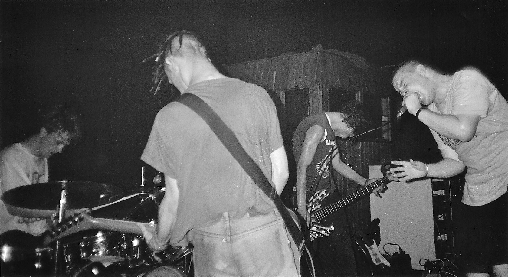 Stretchheads, Old Queens Head, Stockwell, London 1991 Stretchheads Quality Time photo set. Neate photos facebook page. More neate photos.